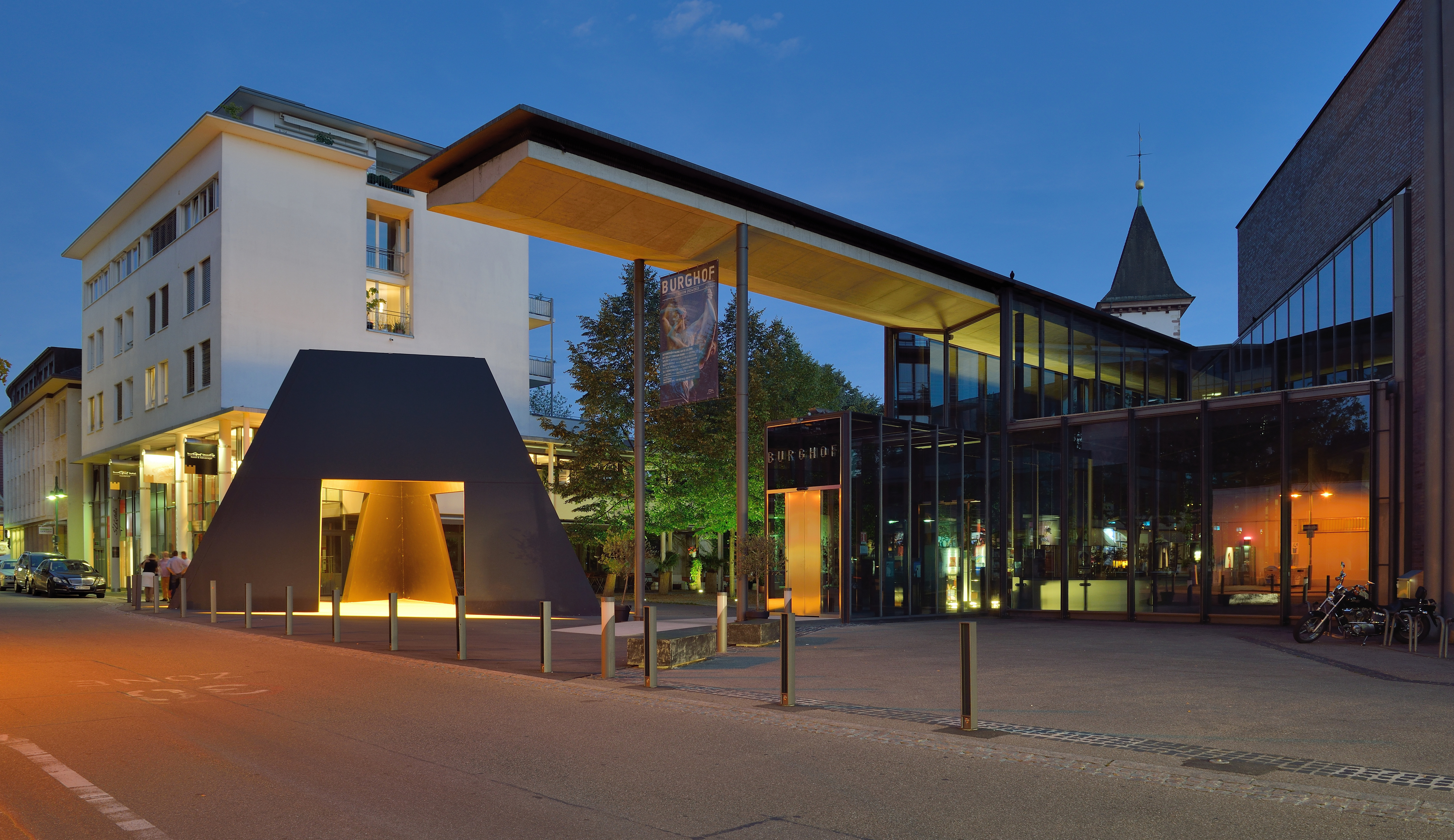 "Burghof Lörrach"